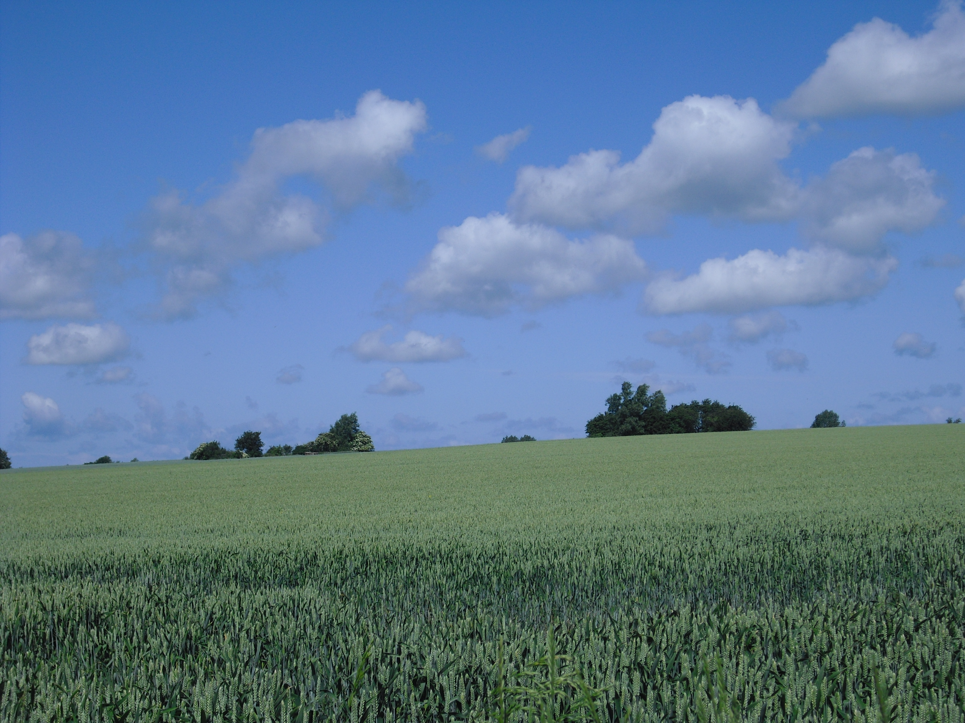 Mount Hinrichsbarg on the island of Fehmarn